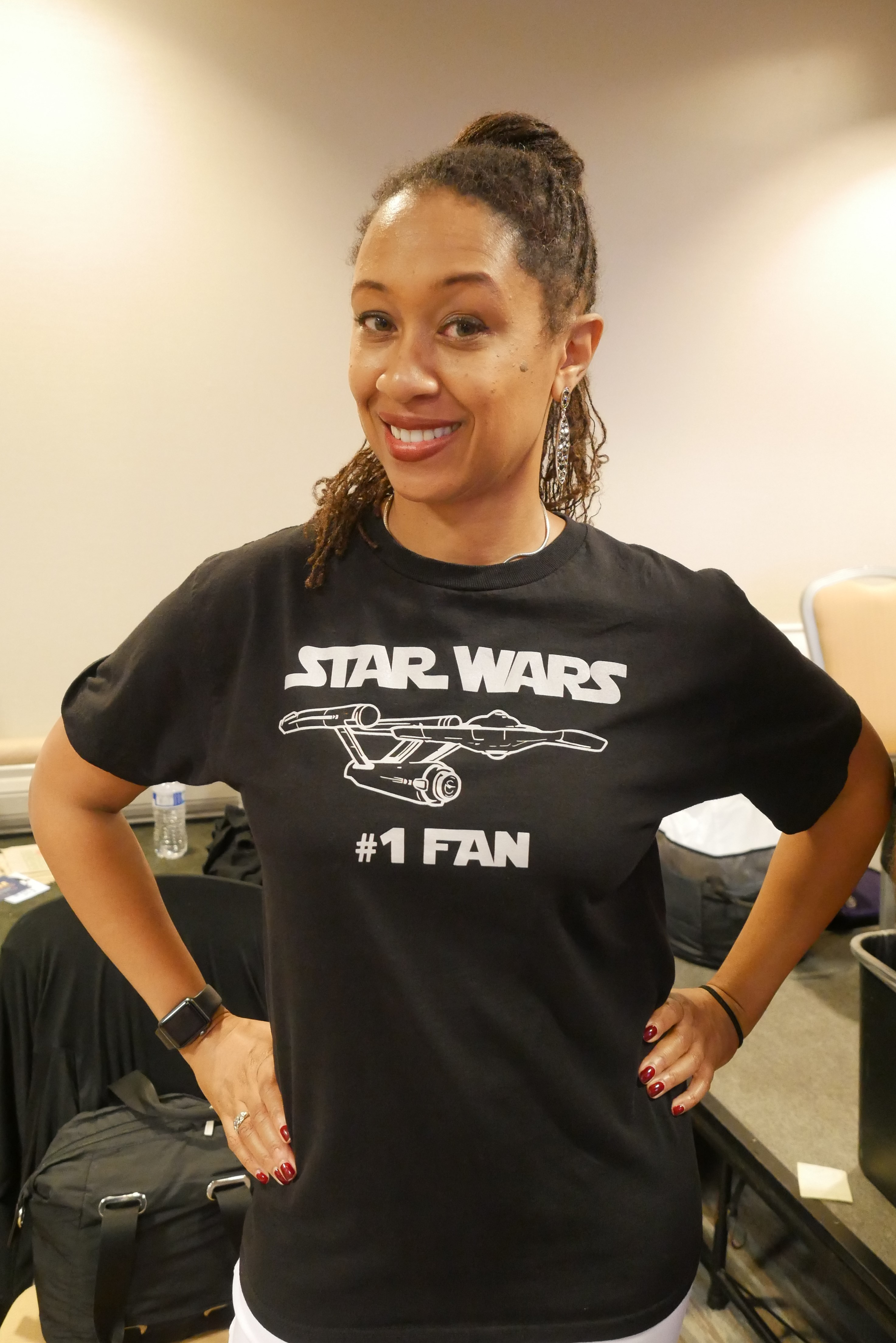 Leighann Lord Dragon Con 2018 Fan Shirt